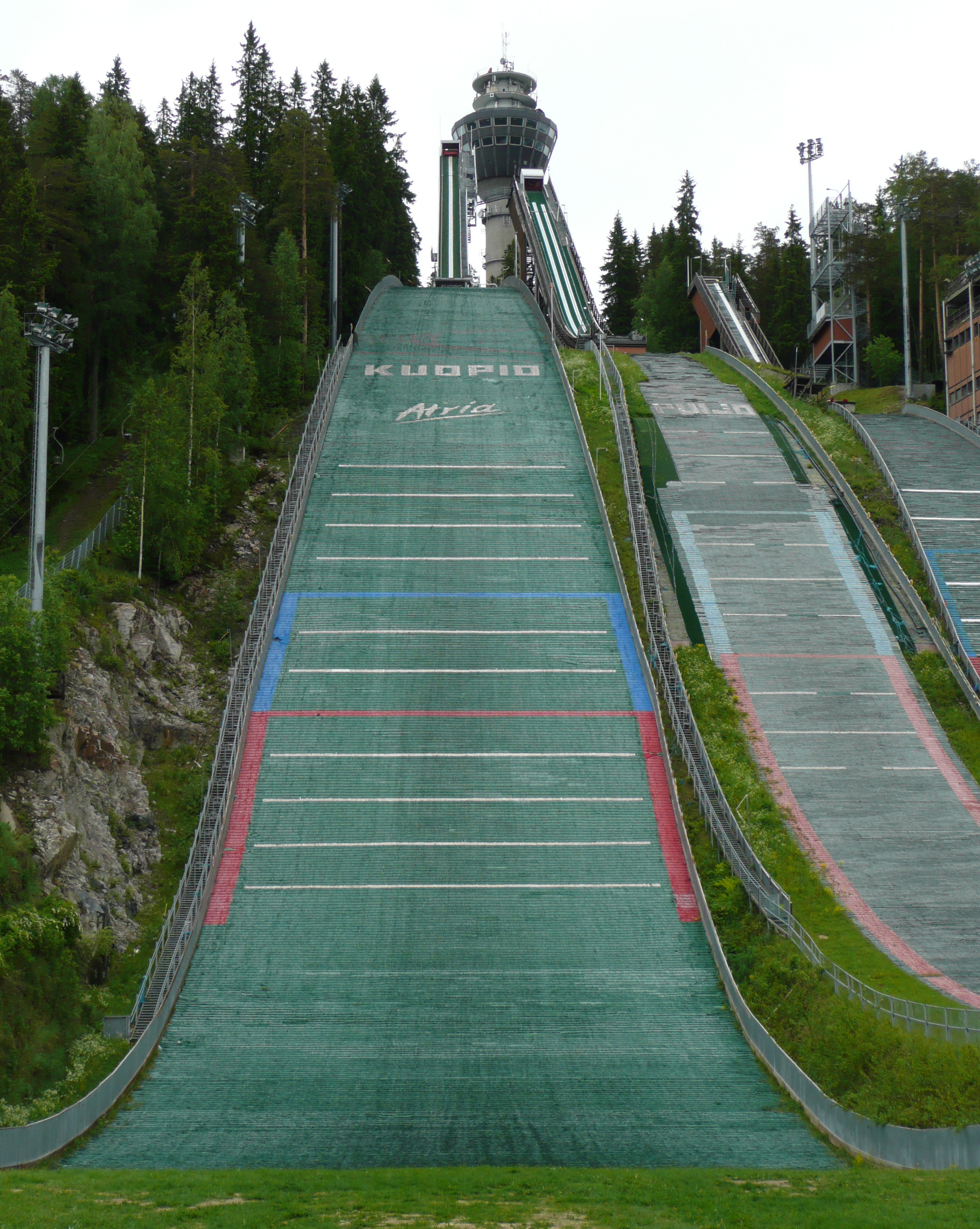 Puijo ski jumping hills.